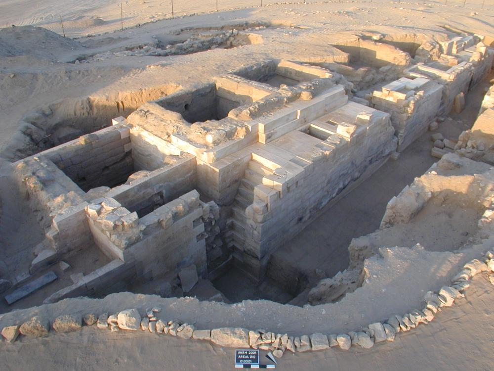 View of a tomb from Awwam cemetery